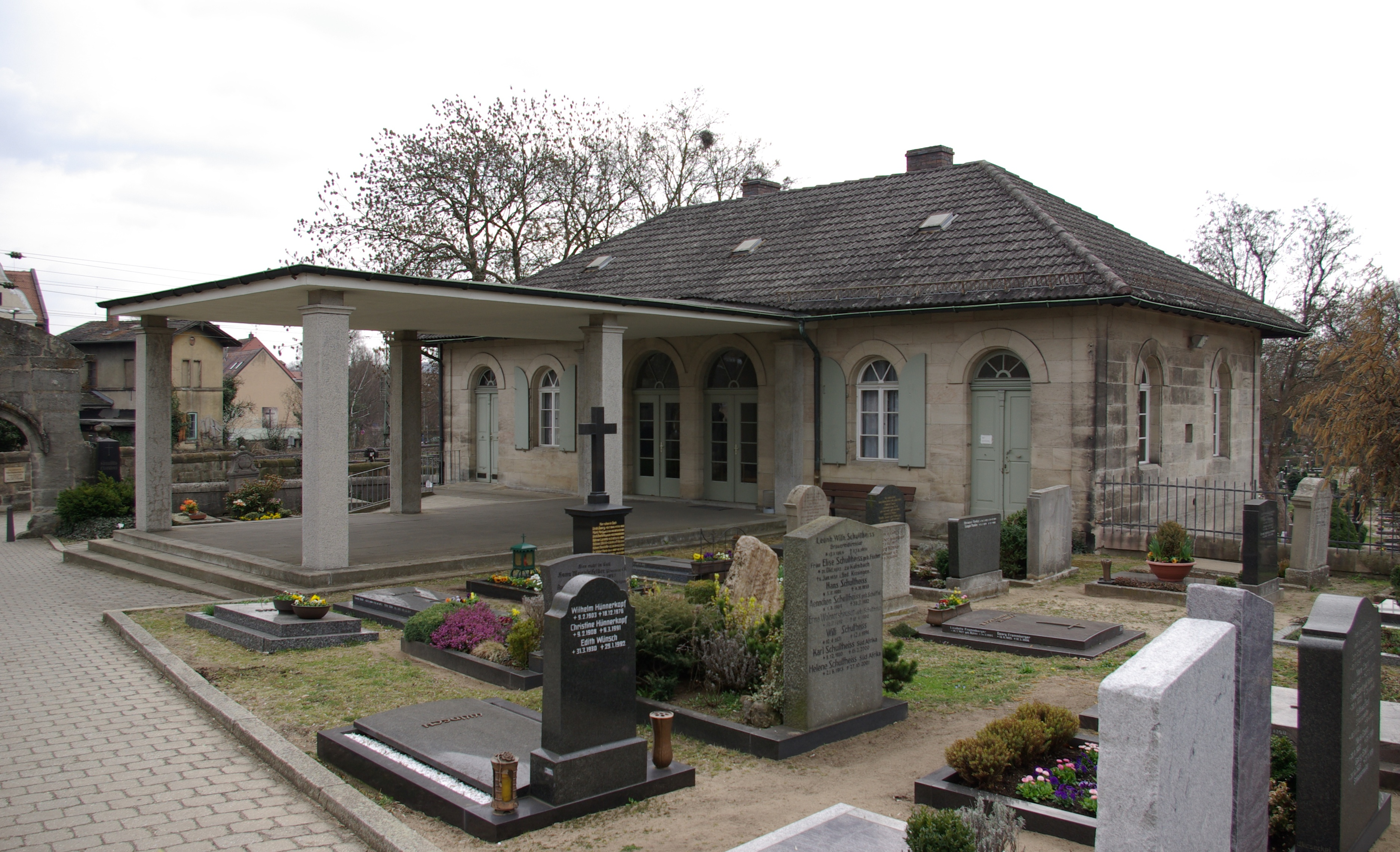 Erlangen